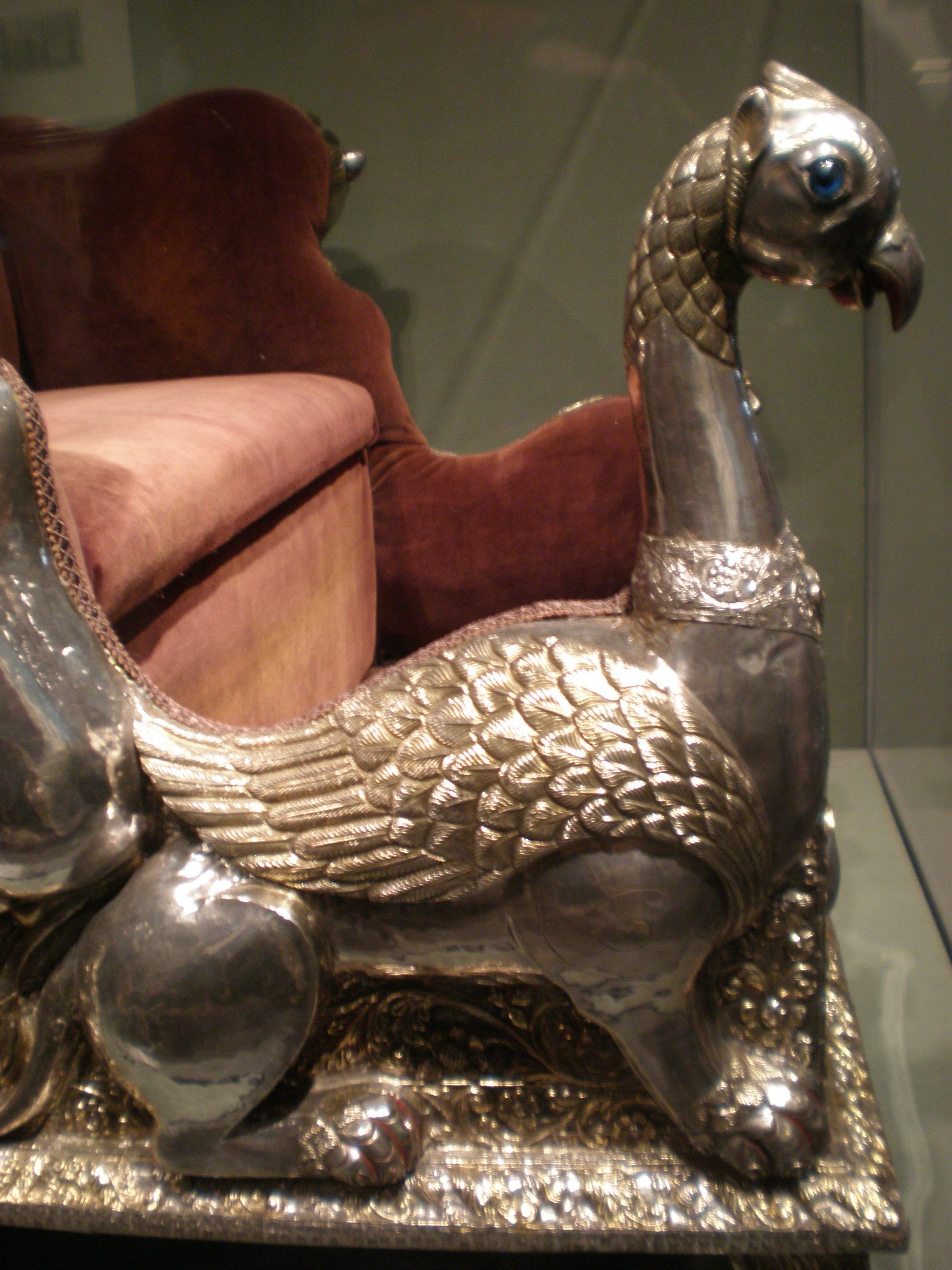 Detail of a silver elephant throne, approx. 1870-1920, from perhaps Ambikapur, Madhya Pradesh state, India. On display at the Asian Art Museum in San Francisco, California. 2001.12